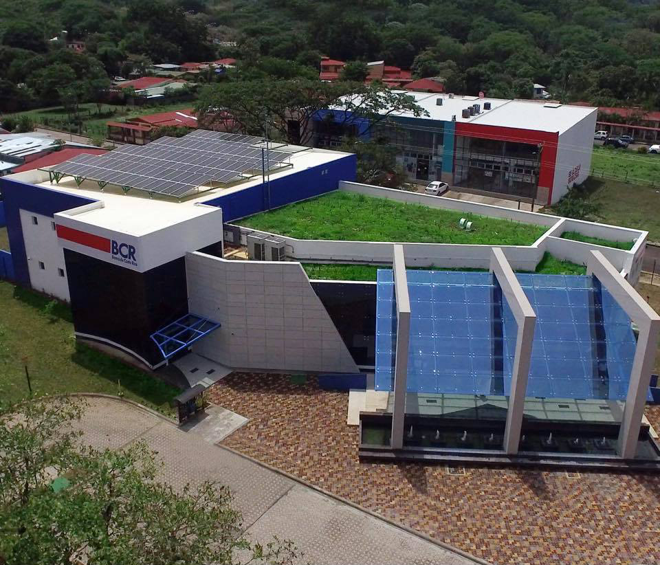 Banco de Costa Rica in Nicoya